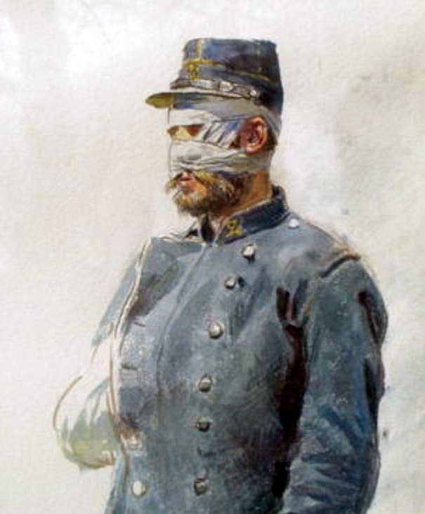 soldier